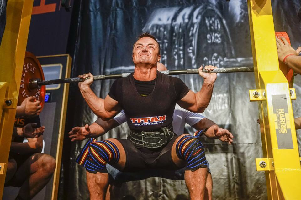 Erni Gregorčič at Worlds 2014 in Sydney, Australia